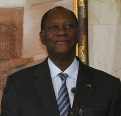 U.S. Secretary of State Hillary Rodham Clinton and Ivoirian President Alassane Ouattara respond to questions from reporters during their joint press conference at the Presidential Palace in Abidjan, Cote d’Ivoire, on January 17, 2012. [State Department photo/ Public Domain]